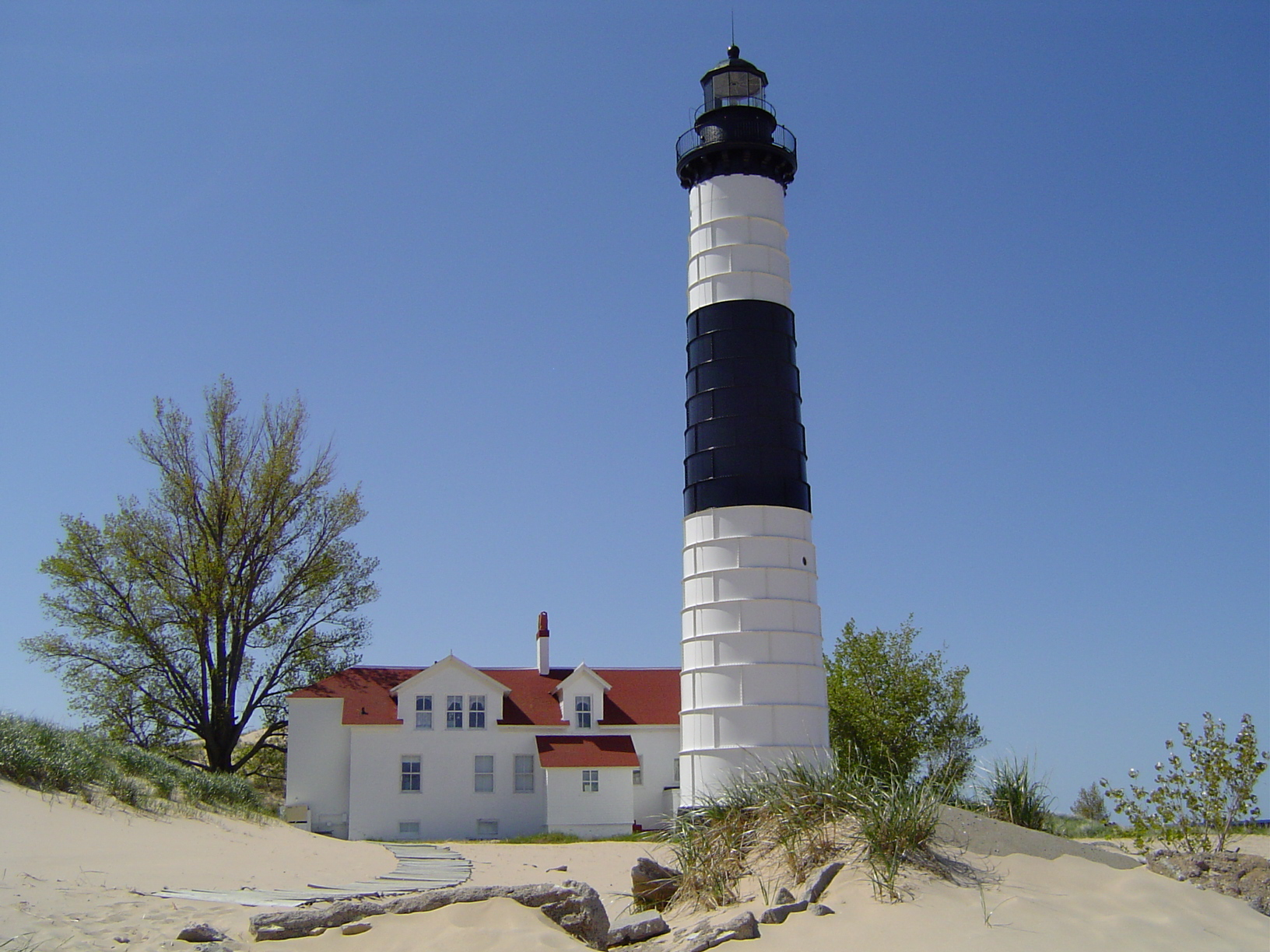 Took the picture myself.